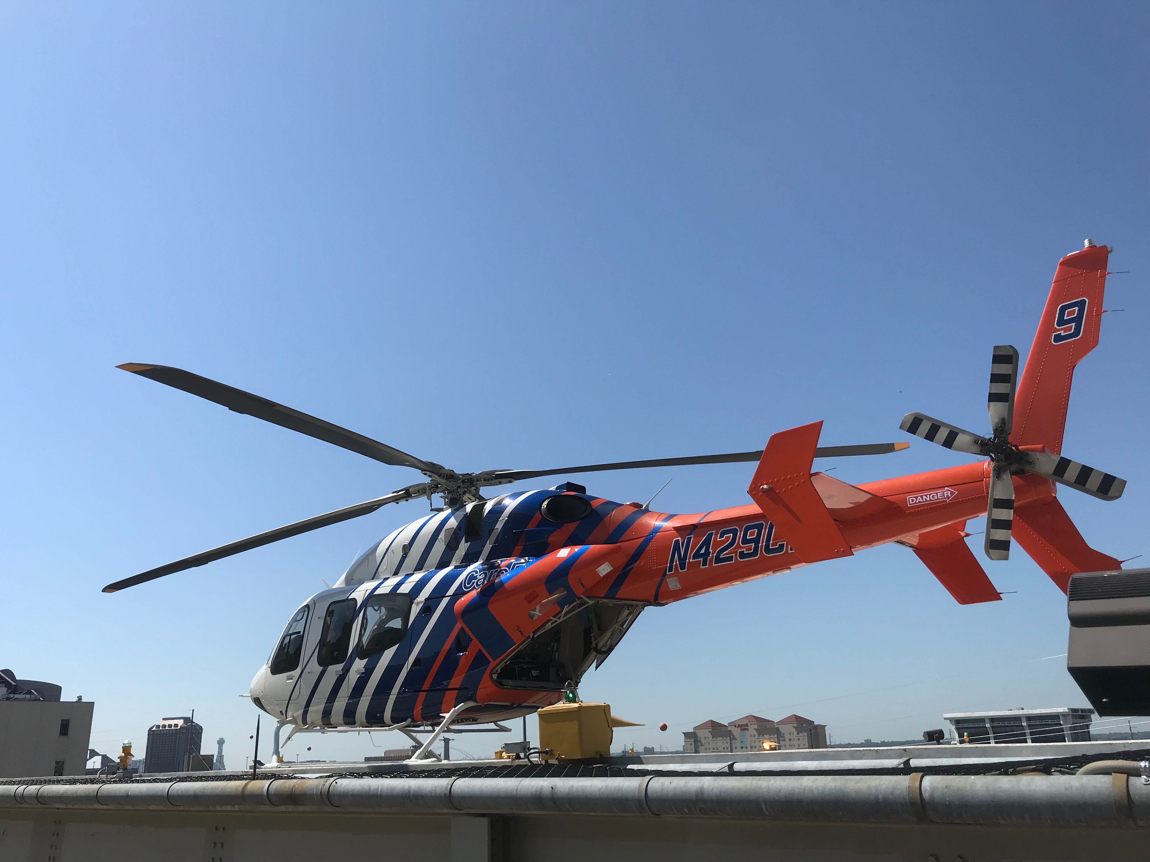 CareFlite Bell 429 at Parkland Memorial Hospital.